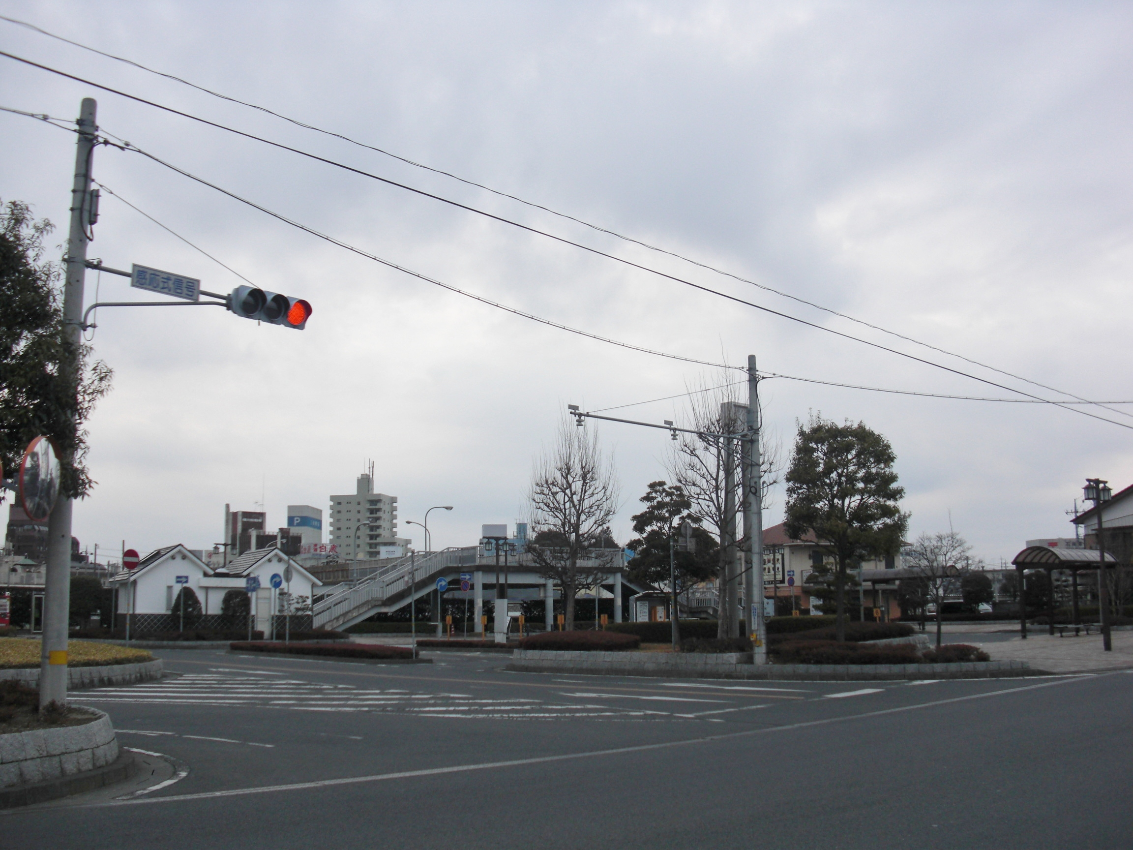 East side of Ishioka Station on the JR Joban Line in Ishioka, Ibaraki Prefecture, Japan